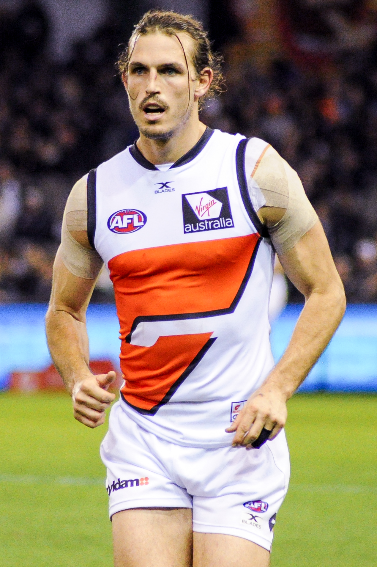 Phil Davis during the AFL round twelve match between Carlton and Greater Western Sydney on 11 June 2017 at Etihad Stadium in Melbourne, Victoria.